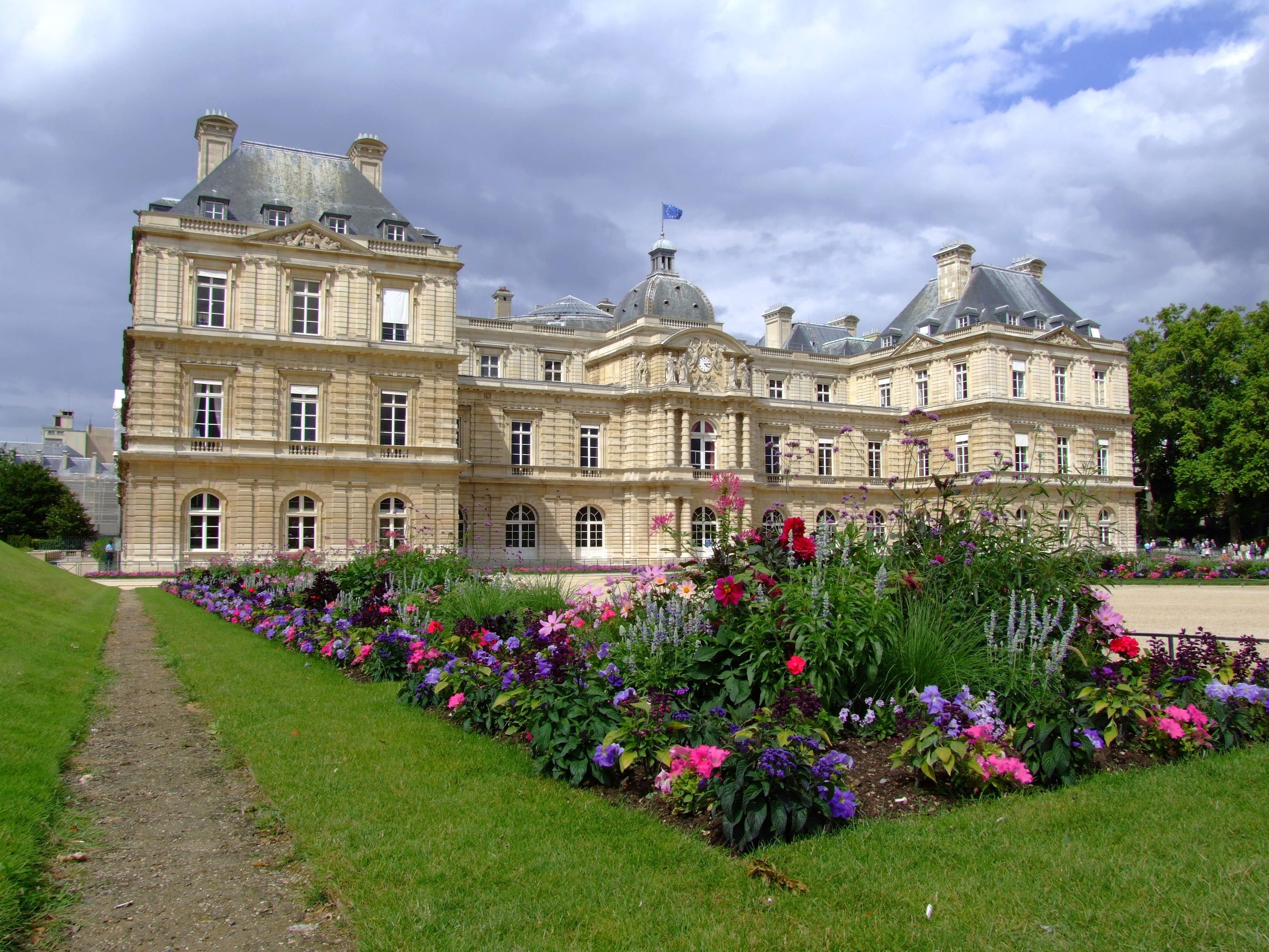 Summer in Paris, facade of Palais du Luxembourg, Jardin du Luxembourg, VIe arrondissement, Paris, France.